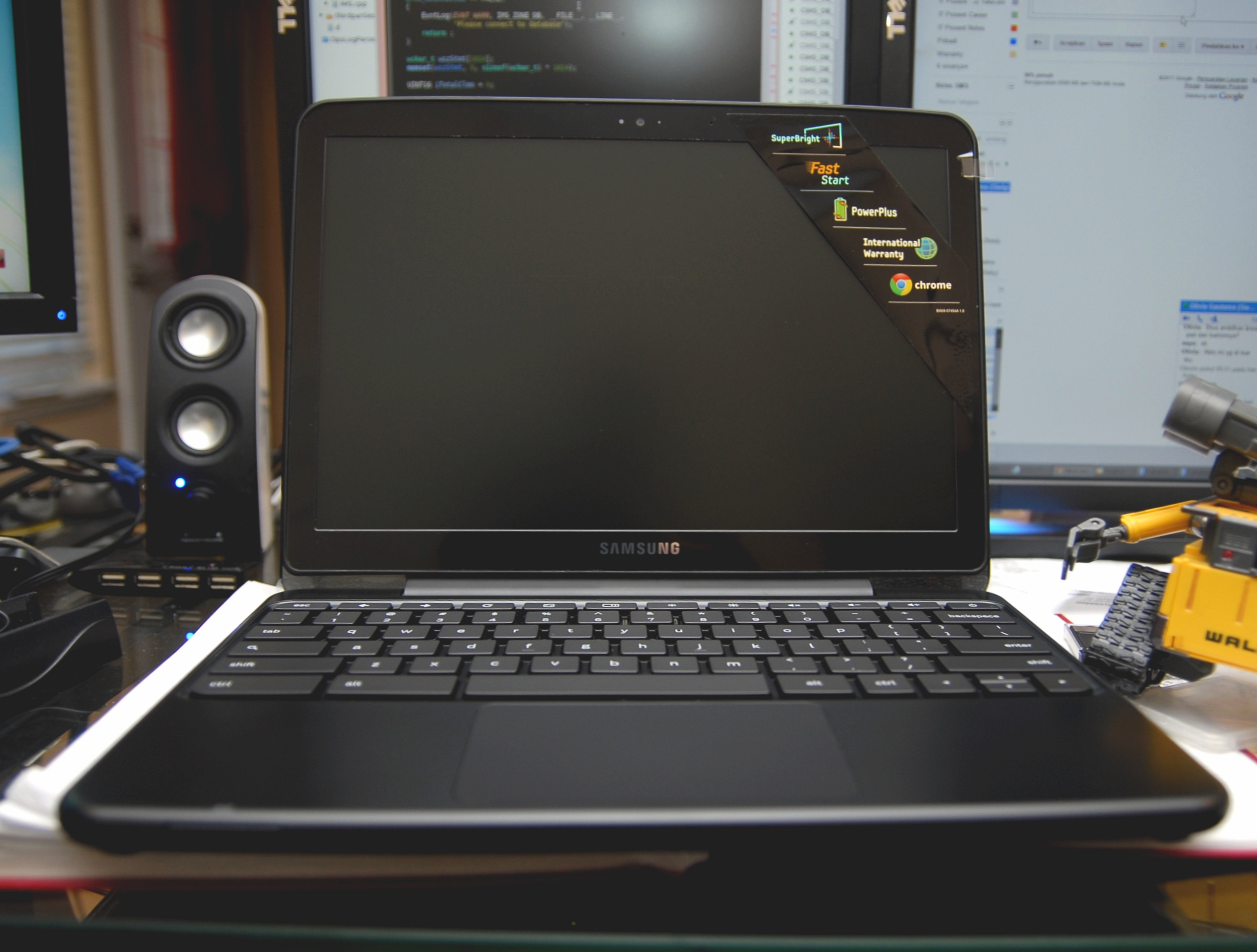 A Samsung-made Chromebook